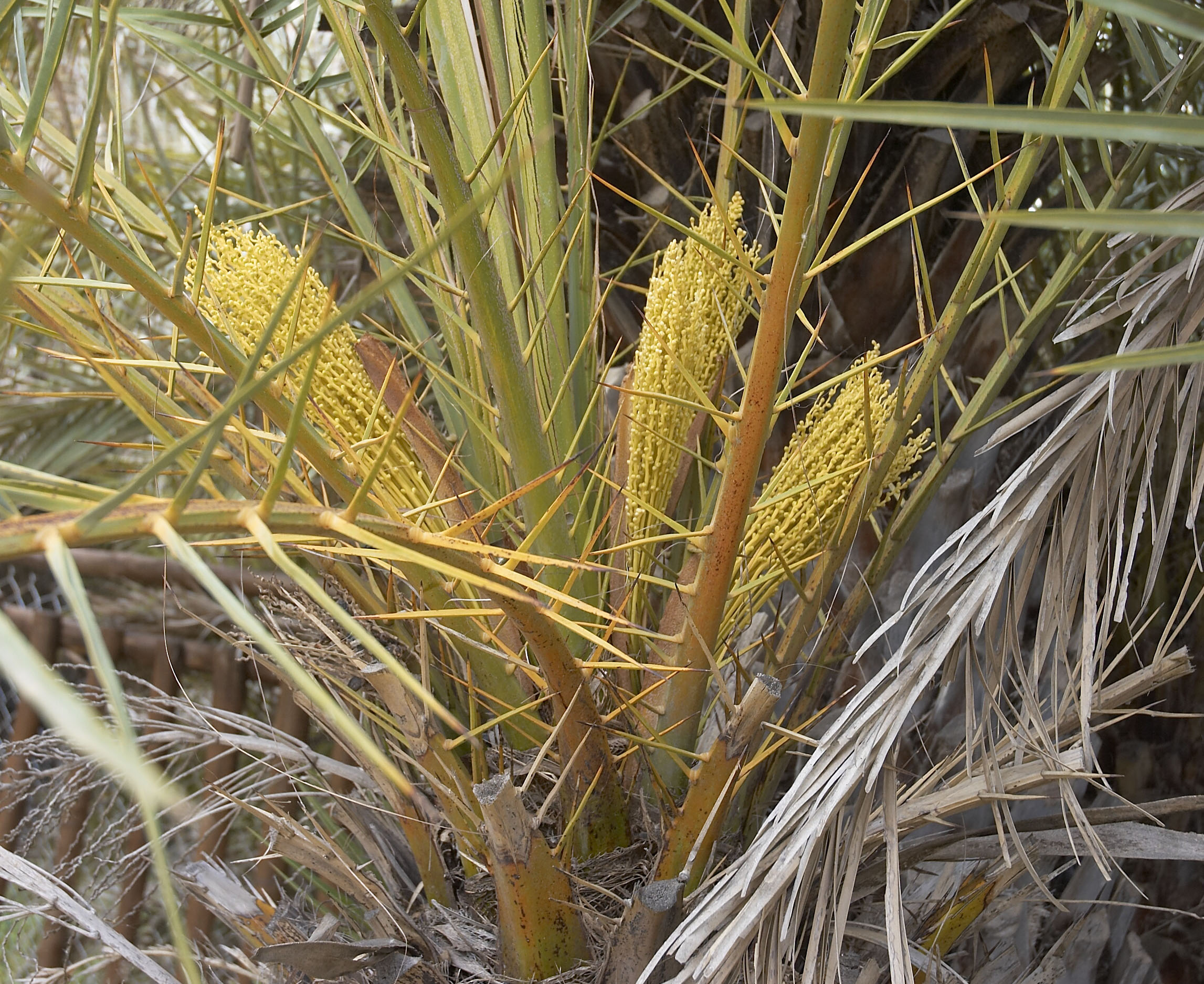 Flowers of Phoenix theophrasti at the beach in Vai, Crete